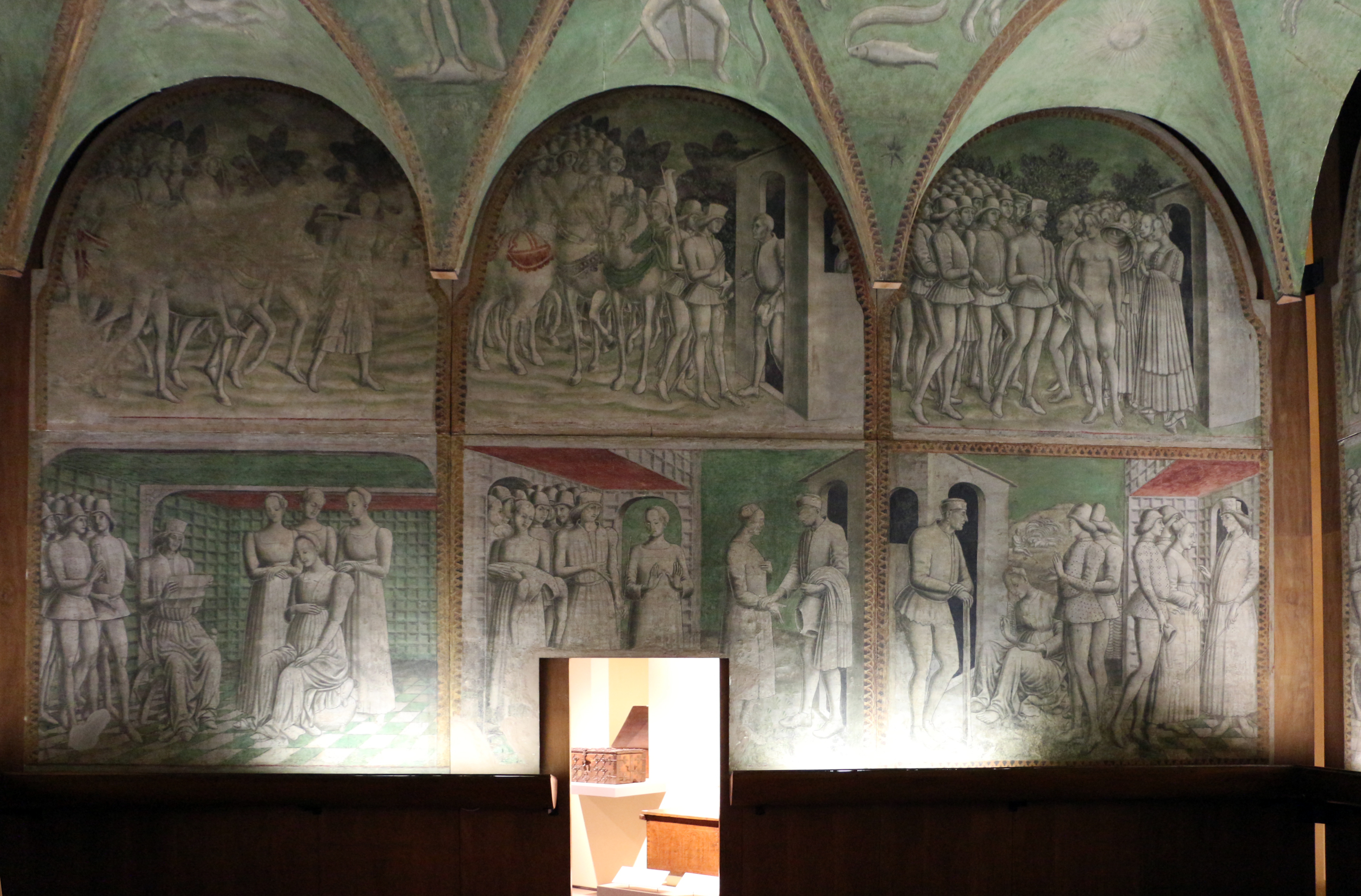 Raccolte d'arte applicate del Castello Sforzesco di Milano